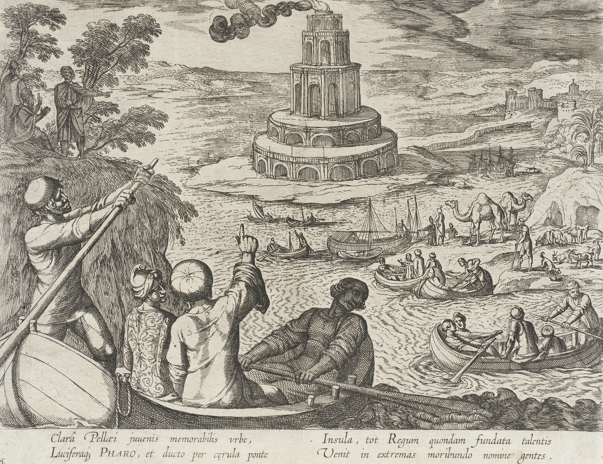 Italy, published 1610 Series: The Seven Wonders of the World, pl. 6 Prints; etchings Etching Los Angeles County Fund (65.37.294) Prints and Drawings